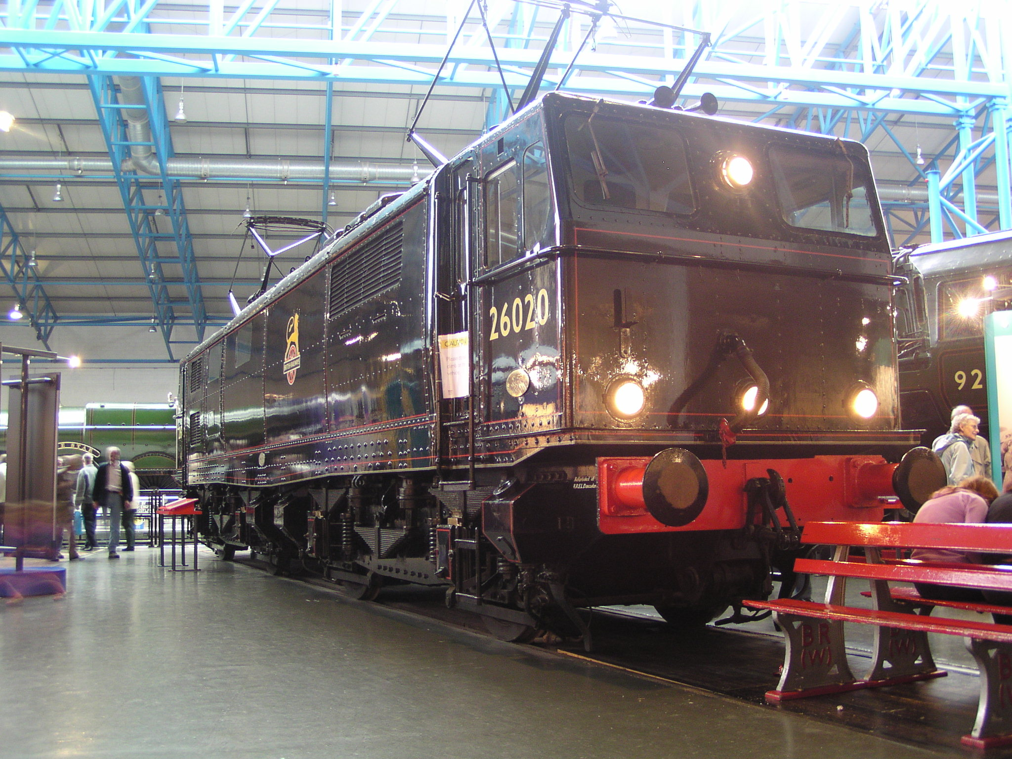 British Rail Class 76, no. 26020 on display at the National Railway Museum, York on 3rd June 2004. Image by Phil Scott (Our Phellap)